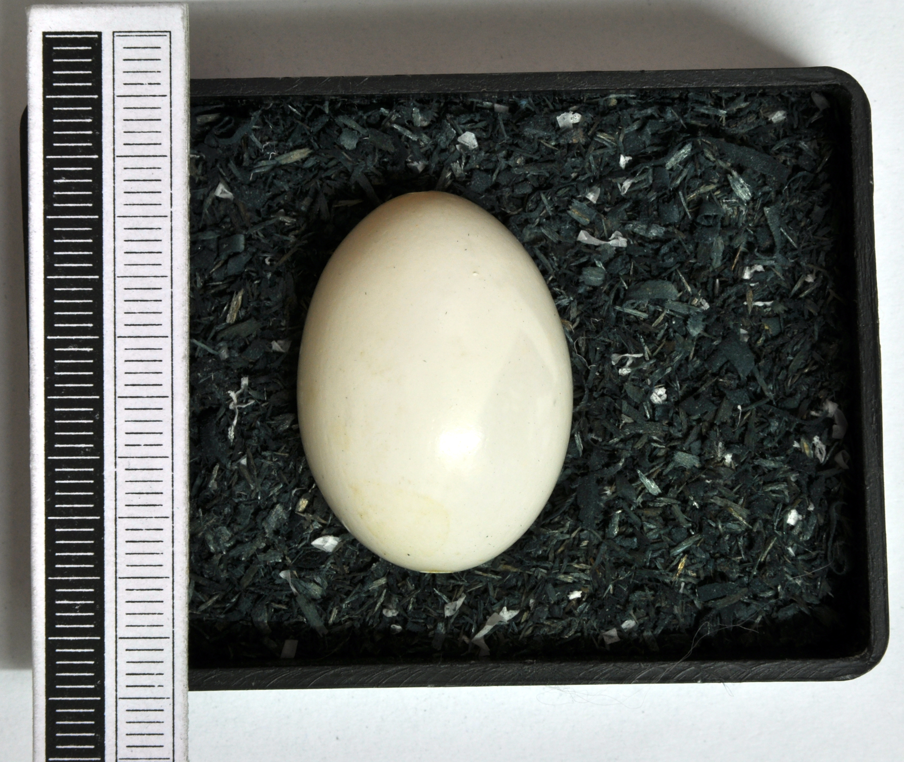 European green woodpecker Picus viridis, egg, Coll. Museum Wiesbaden, Origin: Ämäl, Sweden, 10.05.1963, leg. W. Abelmann